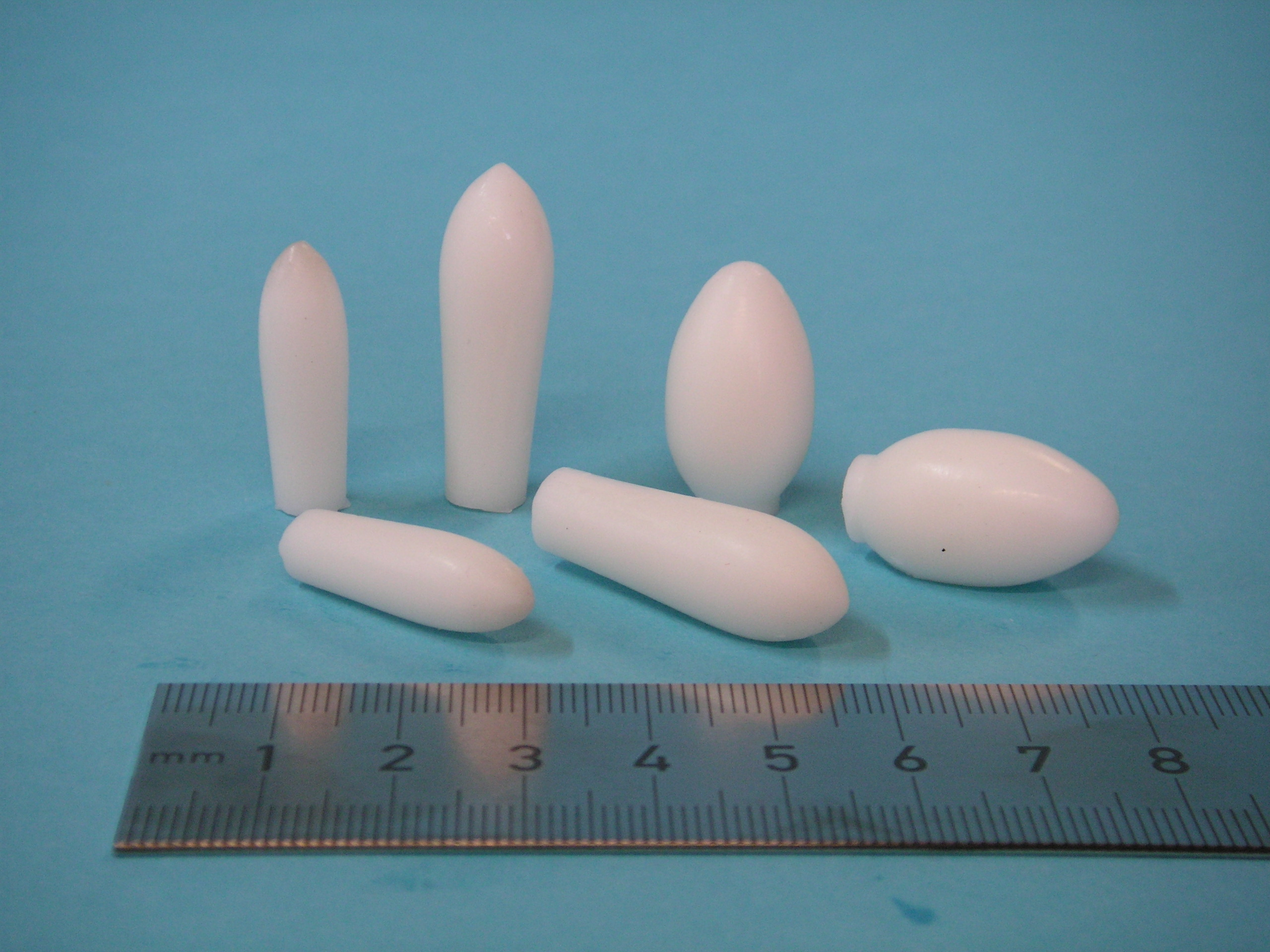 Suppositories in three differenz sizes. Showing from the left to the right a suppository for children (normal weight: 1 grams), a suppository for adults (normal weight: 2 grams) and a vaginal ovula (normal weight: 3 grams).